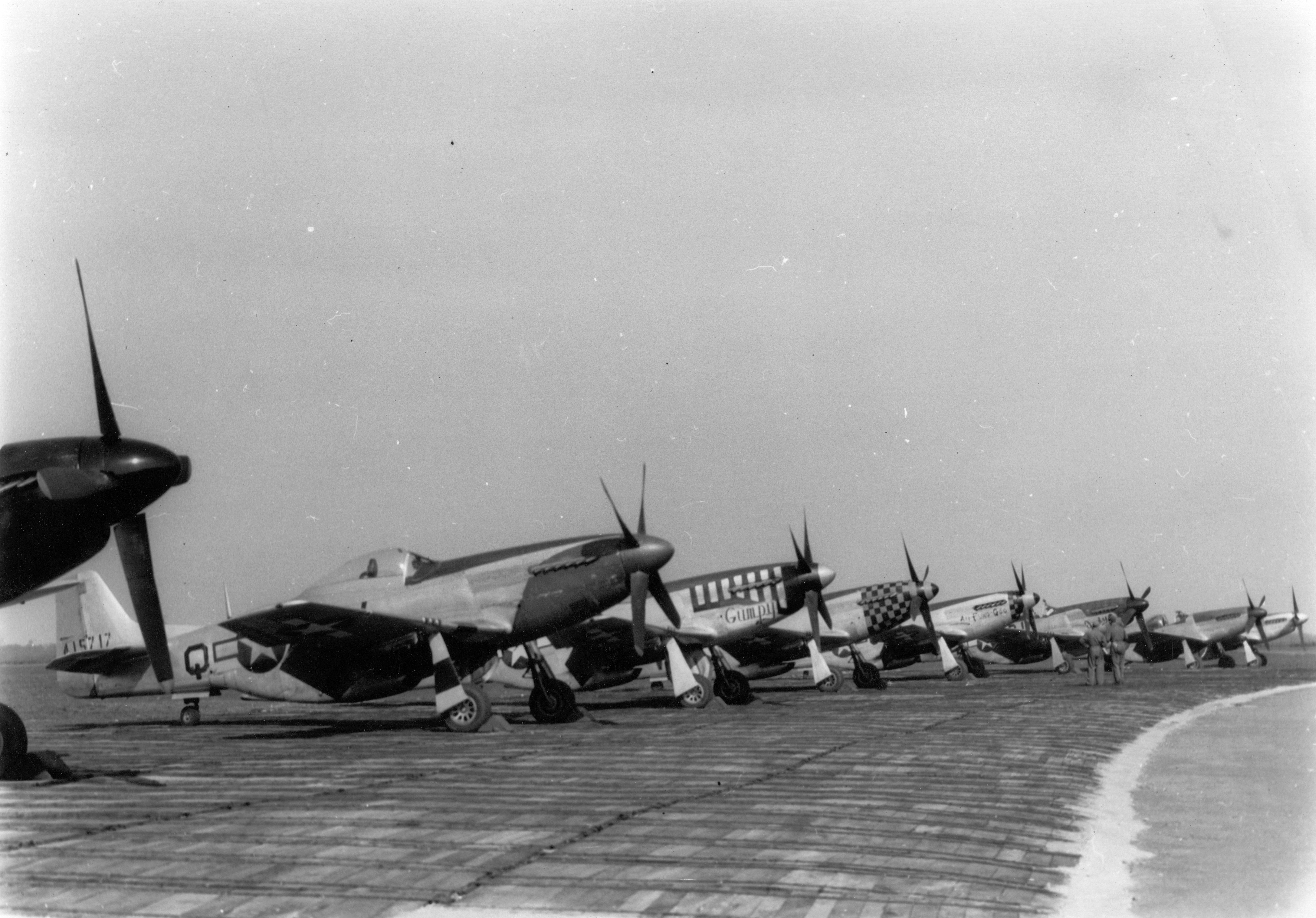 P-51 Mustangs (CV-Q) of the 359th Fighter Group, (LC-D) of the 20th Fighter Group, (LH-V) of the 353rd Fighter group, and (C5-Q) of the 357th Fighter Group, at Debden, home of the 4th Fighter Group.